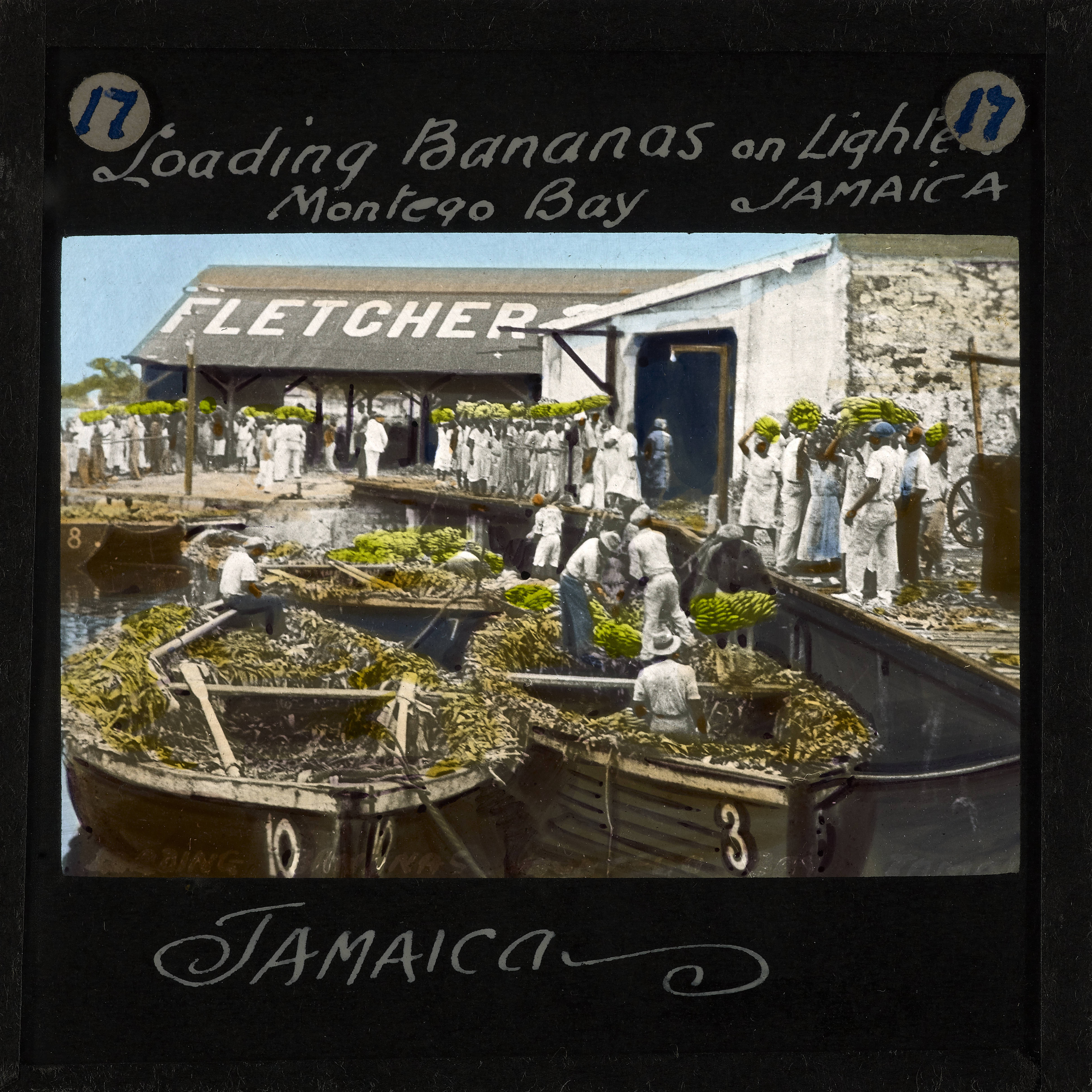 "Loading Bananas on Lighters, Montego Bay, Jamaica" early 20th century Image of bananas being loaded onto lighters, small boats that were used to transport cargoes to ships. Groups of men and women can be seen round the dock carrying bunches of bananas on their heads waiting to be loaded onto the lighters. Others are loading up the lighters. Until well into the 20th century Montego Bay functioned primarily as a sugar port but also exported bananas. Photographer: Unknown Filename: imp-cswc-GB-237-CSWC47-LS12-017.tif Coverage date: after 1900 Part of collection: International Mission Photography Archive, ca.1860-ca.1960 Type: images Part of subcollection: Photographs from the Centre for the Study of World Christianity, University of Edinburgh, U.K., ca.1900-ca.1940s Repository name: Centre for the Study of World Christianity Archival file: impaunpub_Volume7/1350.url Geographic subject (city or populated place): Montego Bay Repository address: The University of Edinburgh School of Divinity, New College, Mound Place, Edinburgh EH1 2LX, United Kingdom Geographic subject (country): Jamaica Format (aacr2): 1 lantern slide : 8 x 8 cm. Geographic subject (continent): North and Central America Rights: Contact the repository for details. Part of series: The Jamaican Church in the Bush LS12 Repository Subject (lcsh Keyword): Commerce; Local foods Date created: after 1900 Publisher (of the digital version): University of Southern California. Libraries Subject (aat genre): external views Format (aat): lantern slides Legacy record ID: impa-m68288 Access conditions: File: GB 237 CSWC47/LS12/17